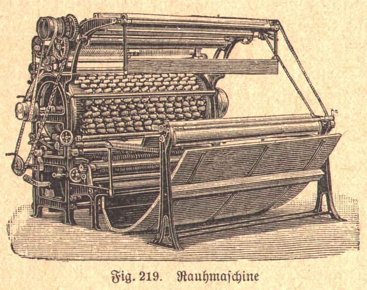 Raising machine